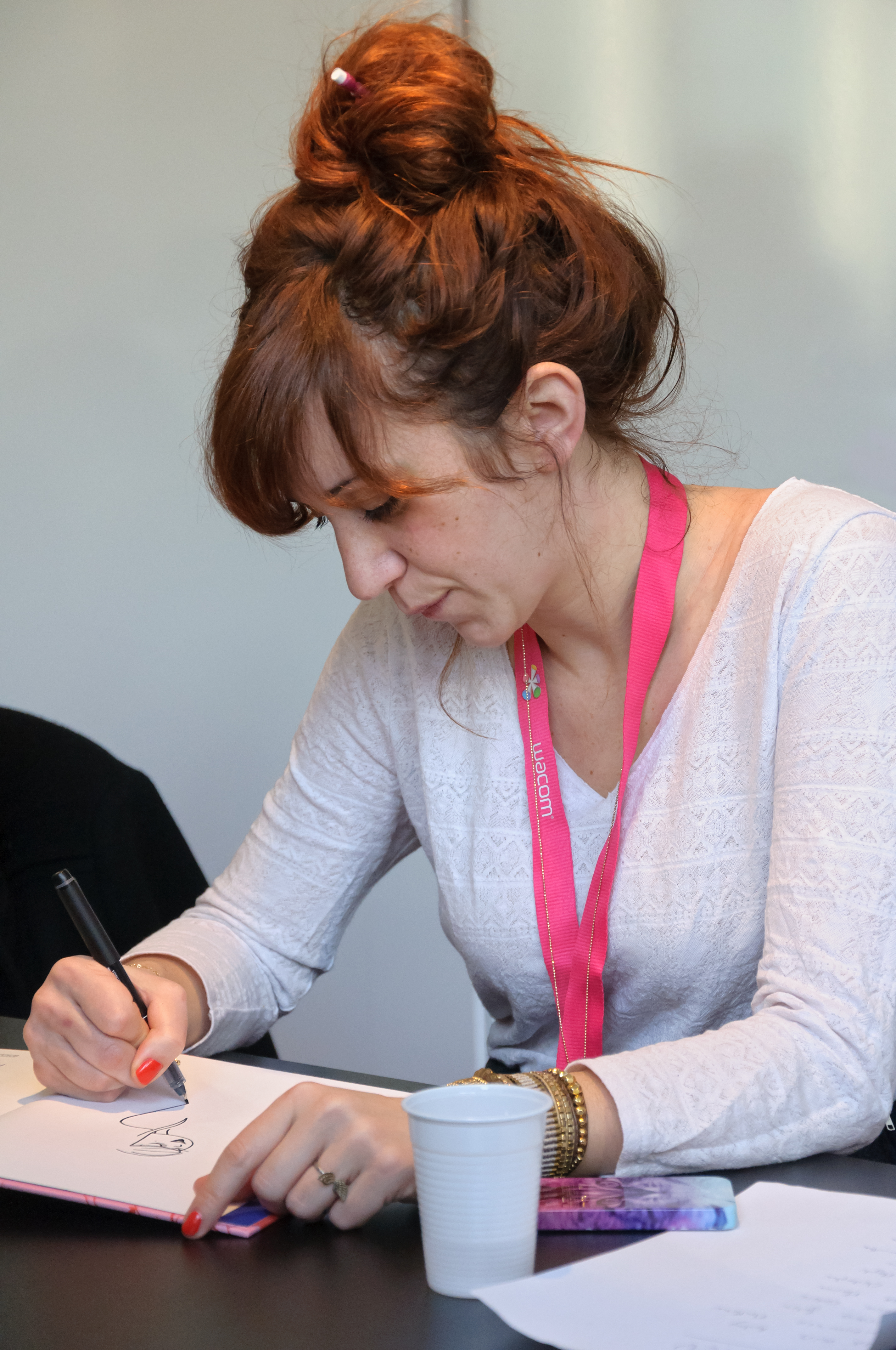 Pénélope Bagieu in autograph session at the 40th Angoulême International Comics Festival, 2013.